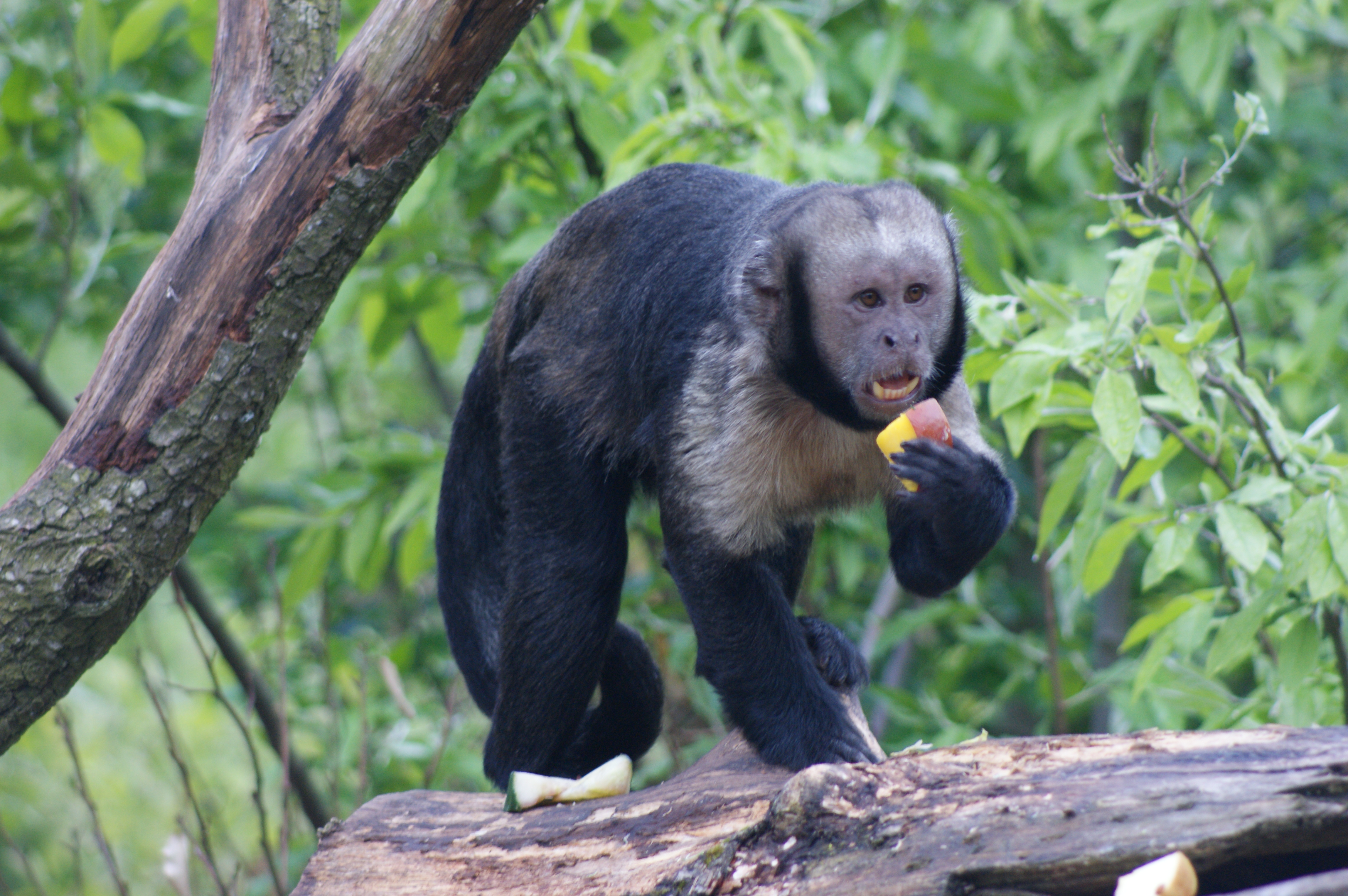 Golden-bellied capuchin (Cebus apella xanthosternos) at Zoo Zürich